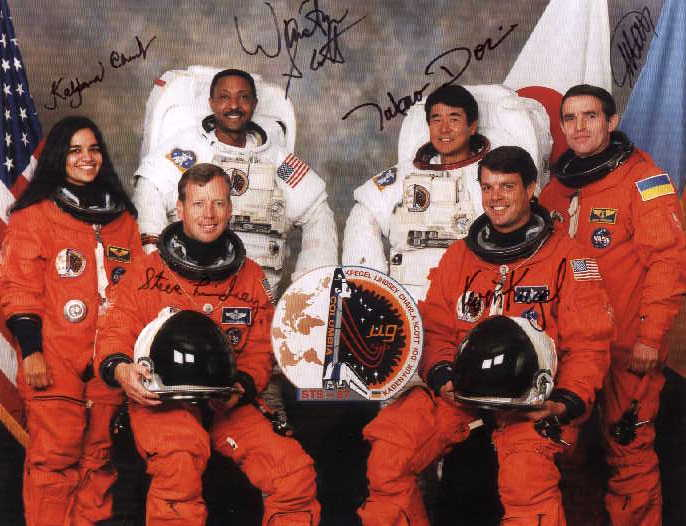 A signed version of the official STS-87 crew portrait.